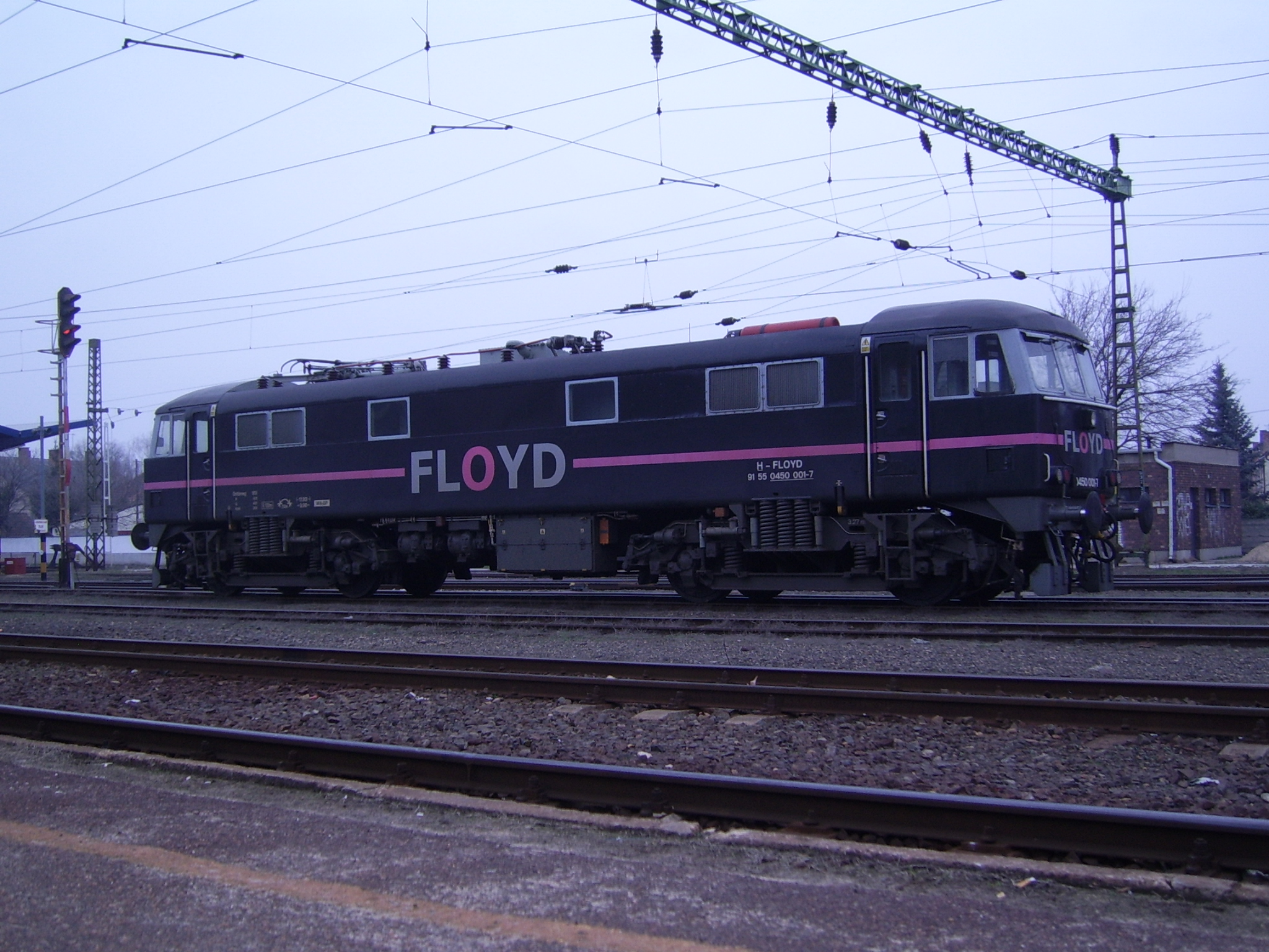 British Rail Class 86 engine, owned by the Hungarian Floyd Co. in Kecskemét, Hungary